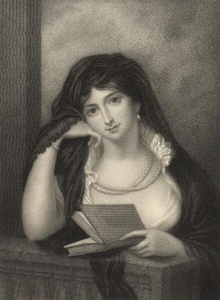 A portrait from the Welsh Portrait Collection at the National Library of Wales. Published March 1831. Depicted person: Elizabeth Jemima Blake – Countess of Erroll